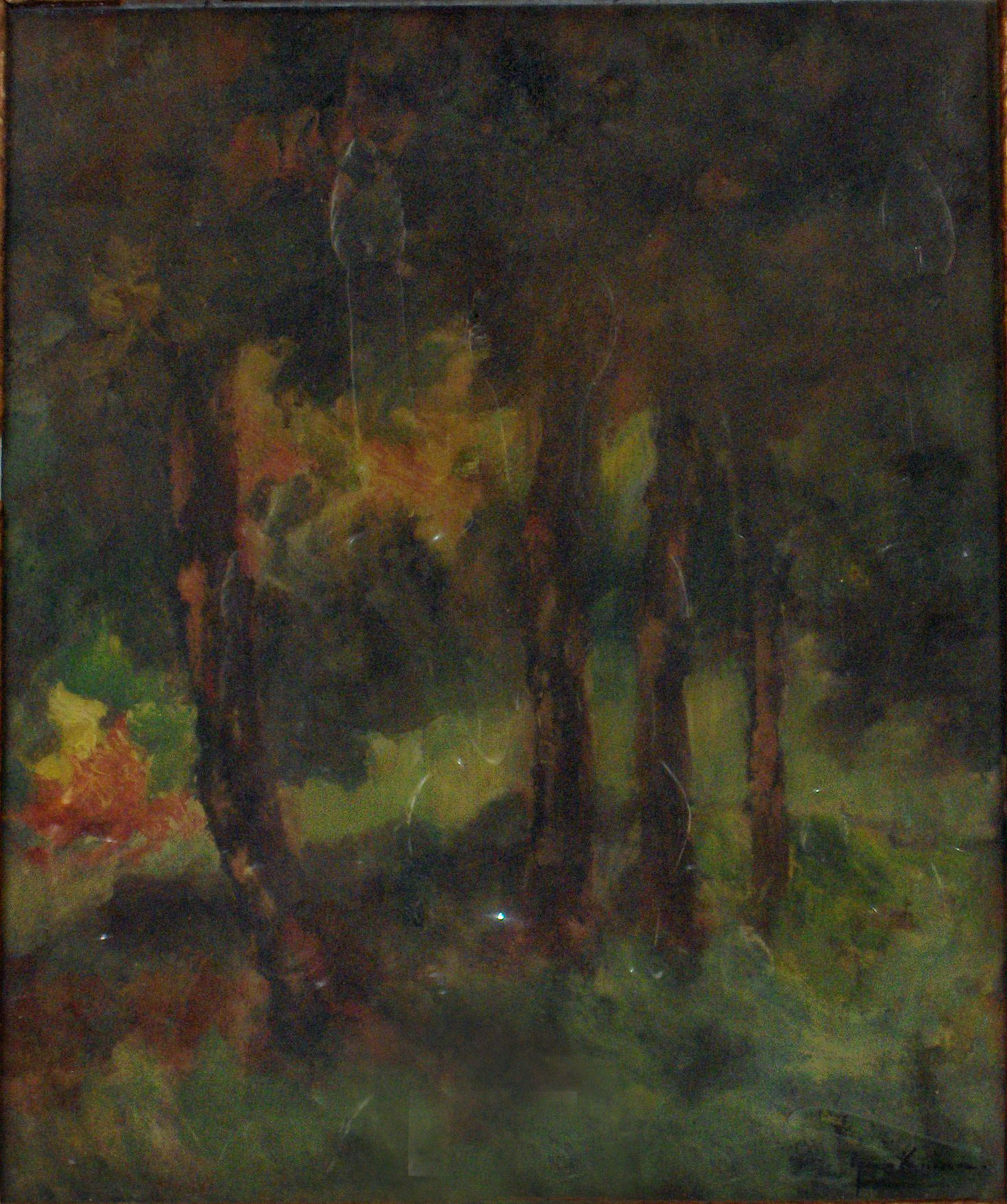 "Woodland" oil painting by Léon Haakman (1859 - ?); signed ; private collection